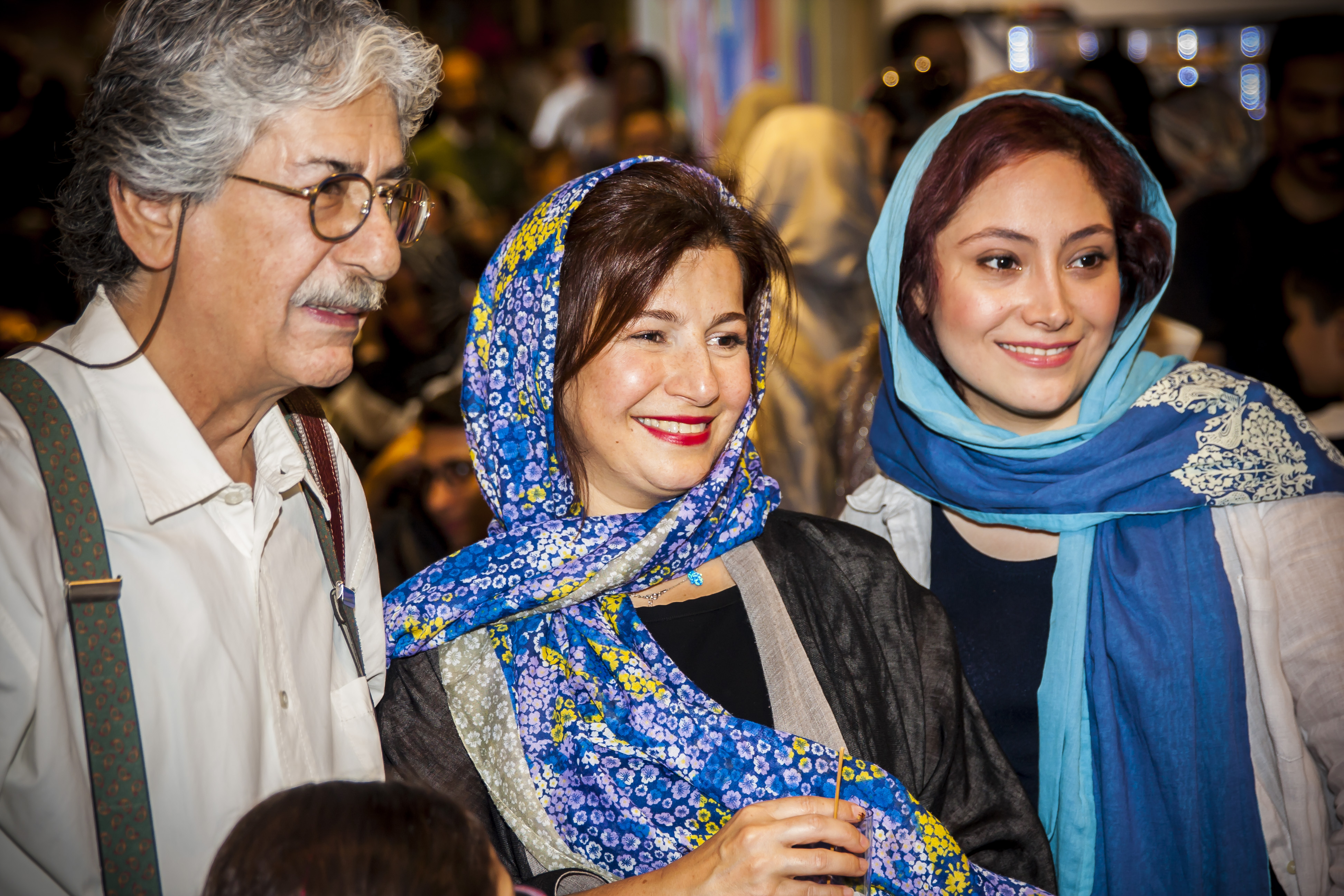 iGhe3, iGhese city - 2019